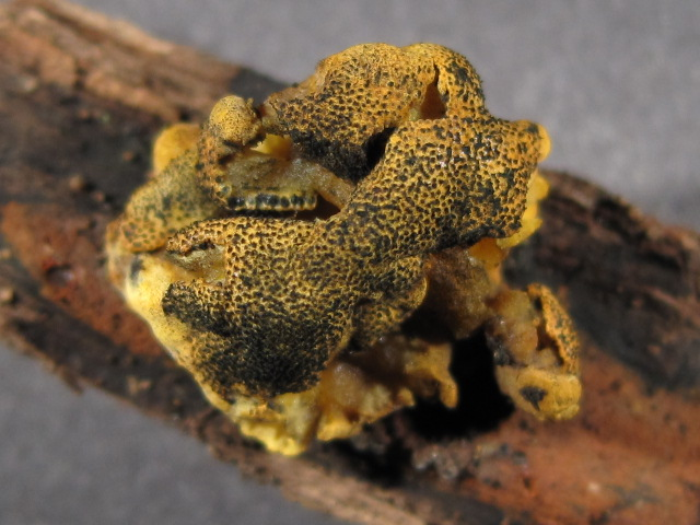 A fruitbody of the ascomycete fungus Thuemenella cubispora (Ellis & Holw.) Boedijn. Found in Bradley Palmer State Park, Topsfield, Massachusetts, USA.